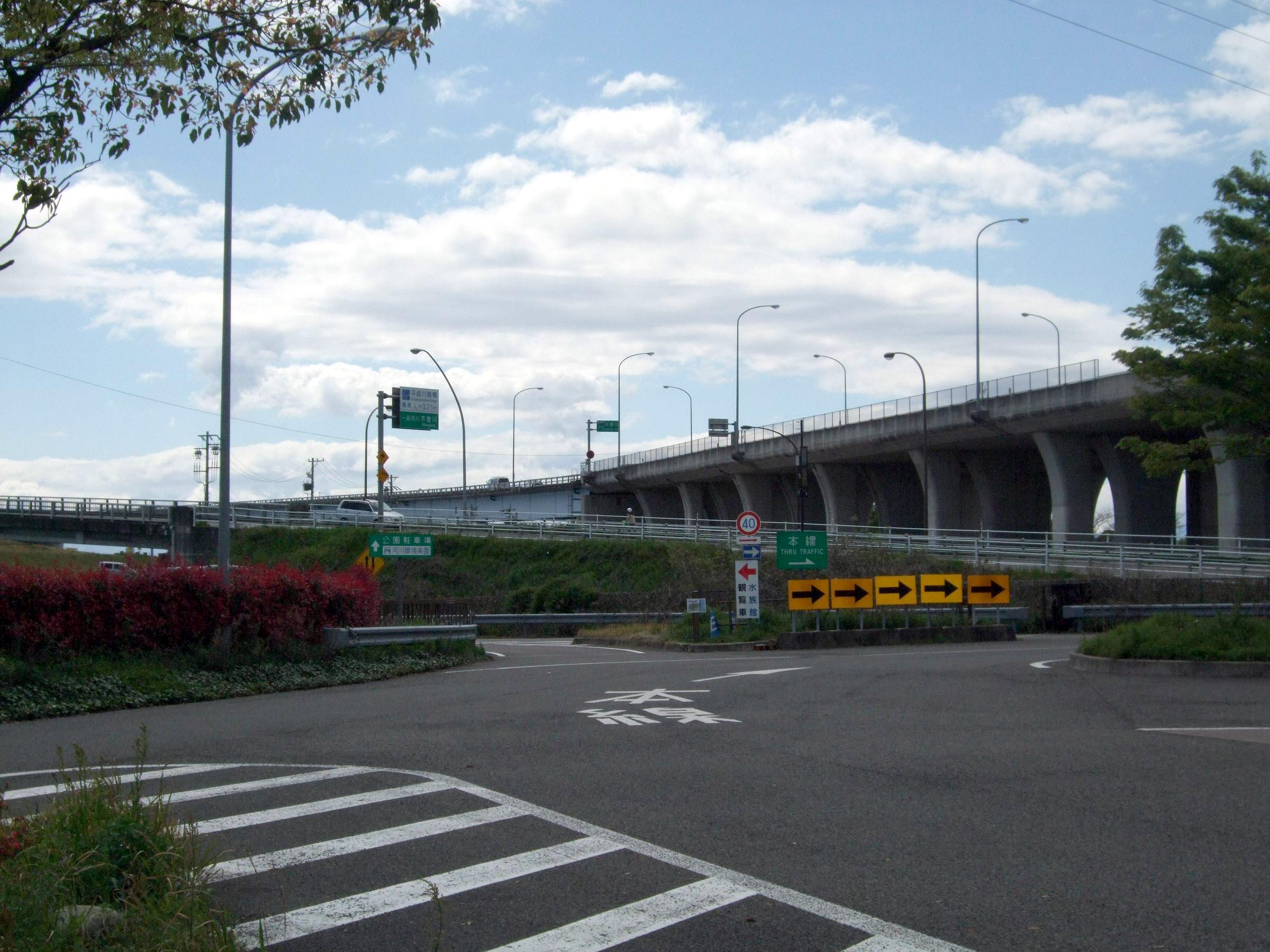 Kawashima Parking Area on the Tokai-Hokuriku Expressway inbound line